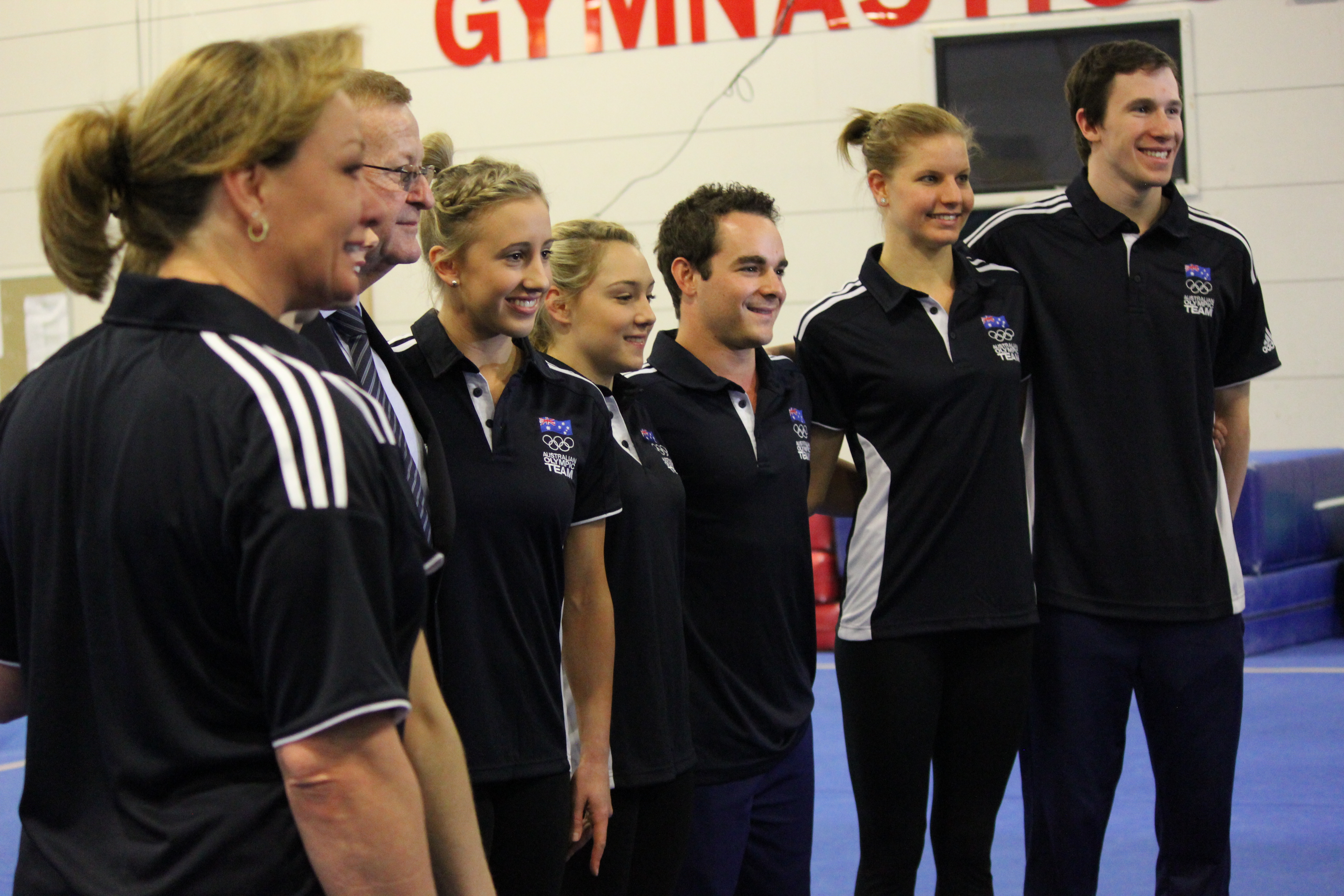 21 June 2012 at the Australian Institute of Sport Gymnastic Centre for the press event announcing the artistic gymnastics team for the London 2012 Summer Olympics attended by Tony Abbott and Kate Lundy. Left to right: Peggy Liddick (head coach), unknown, Ashleigh Brennan, Emily Little, Joshua Jefferis, Janine Murray, Blake Gaudry